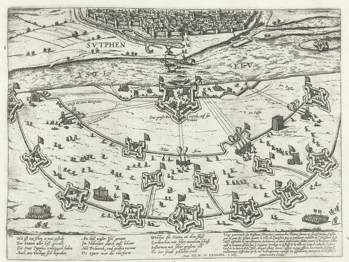 Siege of Zutphen 3 july 1584